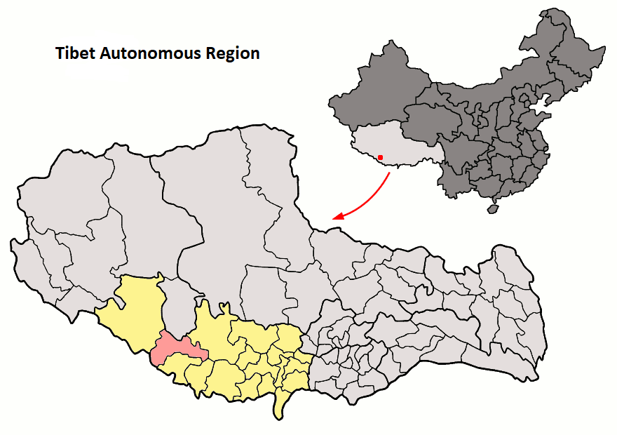 Location of Saga County (pink) and Xigazê Prefecture (yellow) within Tibet (Xizang) autonomous region of China